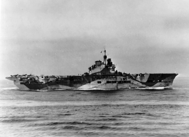 The Royal Navy aircraft carrier HMS Unicorn (I72) underway in the Atlantic Ocean with a speed of 18 knots, some 700 km west of Gibraltar.